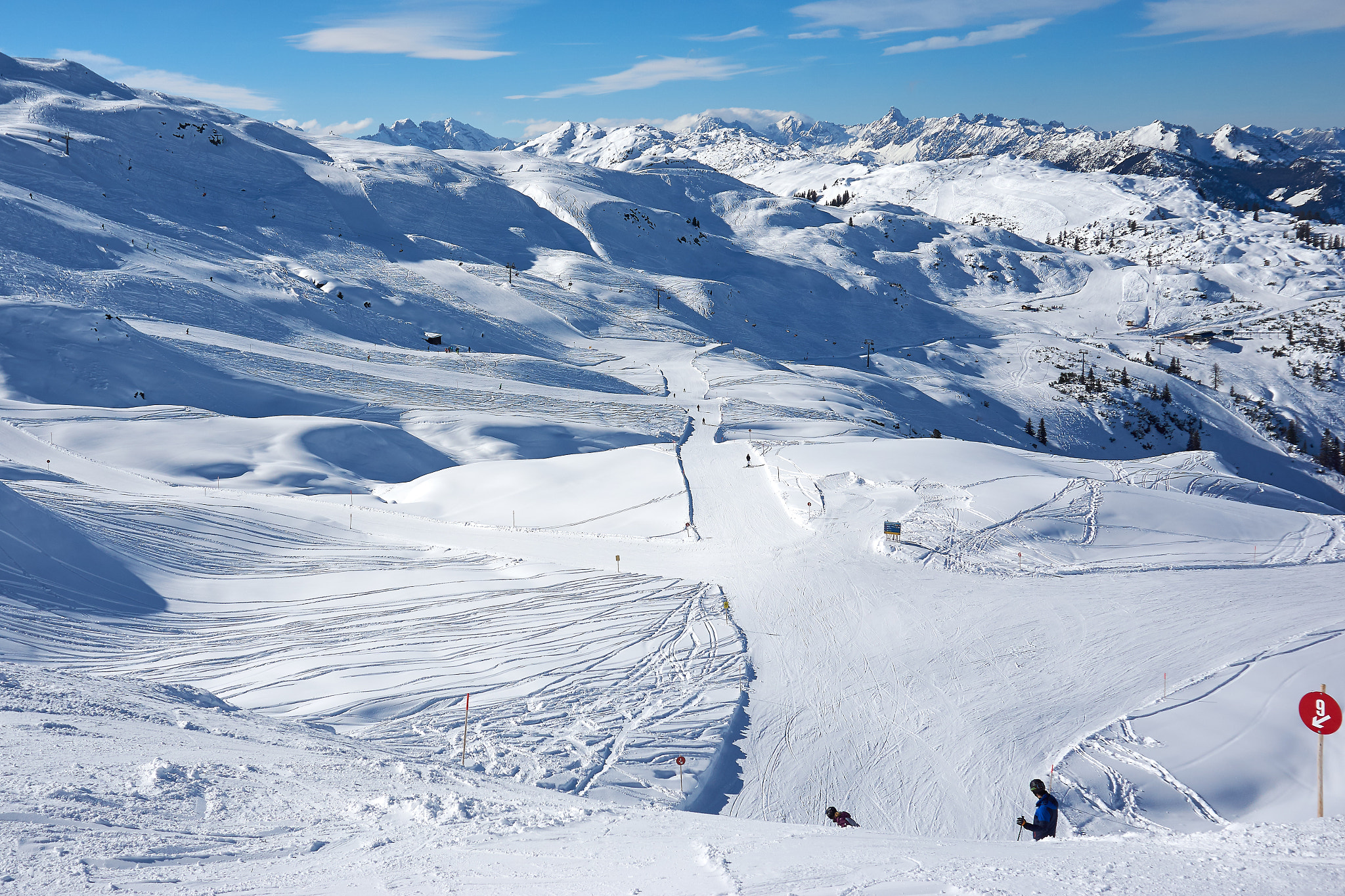 500px provided description: Sonnenkopf, Ski Arlberg this Video on Youtube: my Youtube Channel: [#Ski ,#Kl?sterle ,#Alpin ,#Sonnenkopf ,#Ski Arlberg ,#Martin Weinhardt]